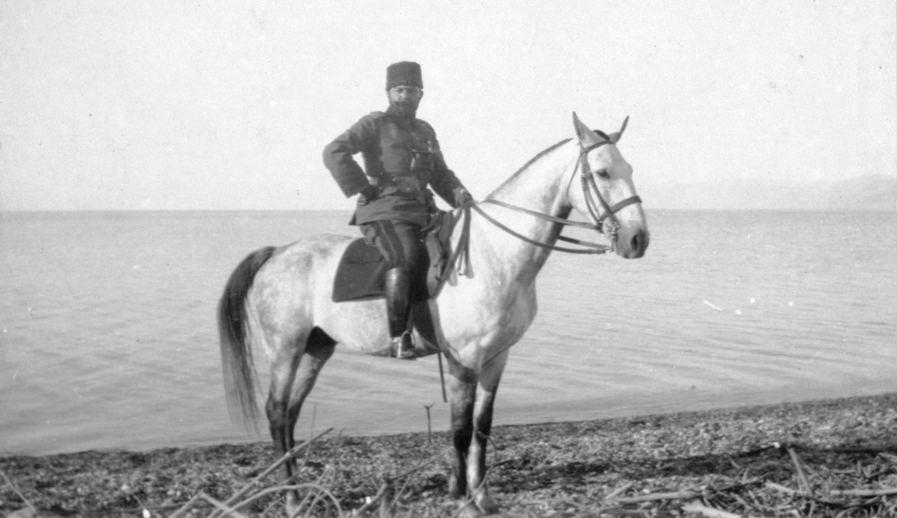 Buyuk (Great) Jamal [Cemal] Pasha, on the shore of the Dead Sea, May 3rd, 1915, 1915. LC-DIG-ppmsca-13709-00002 (digital file from original on page 1, no.1).